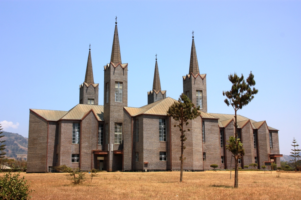 Mbulu Tanzania Catholic Church 2012